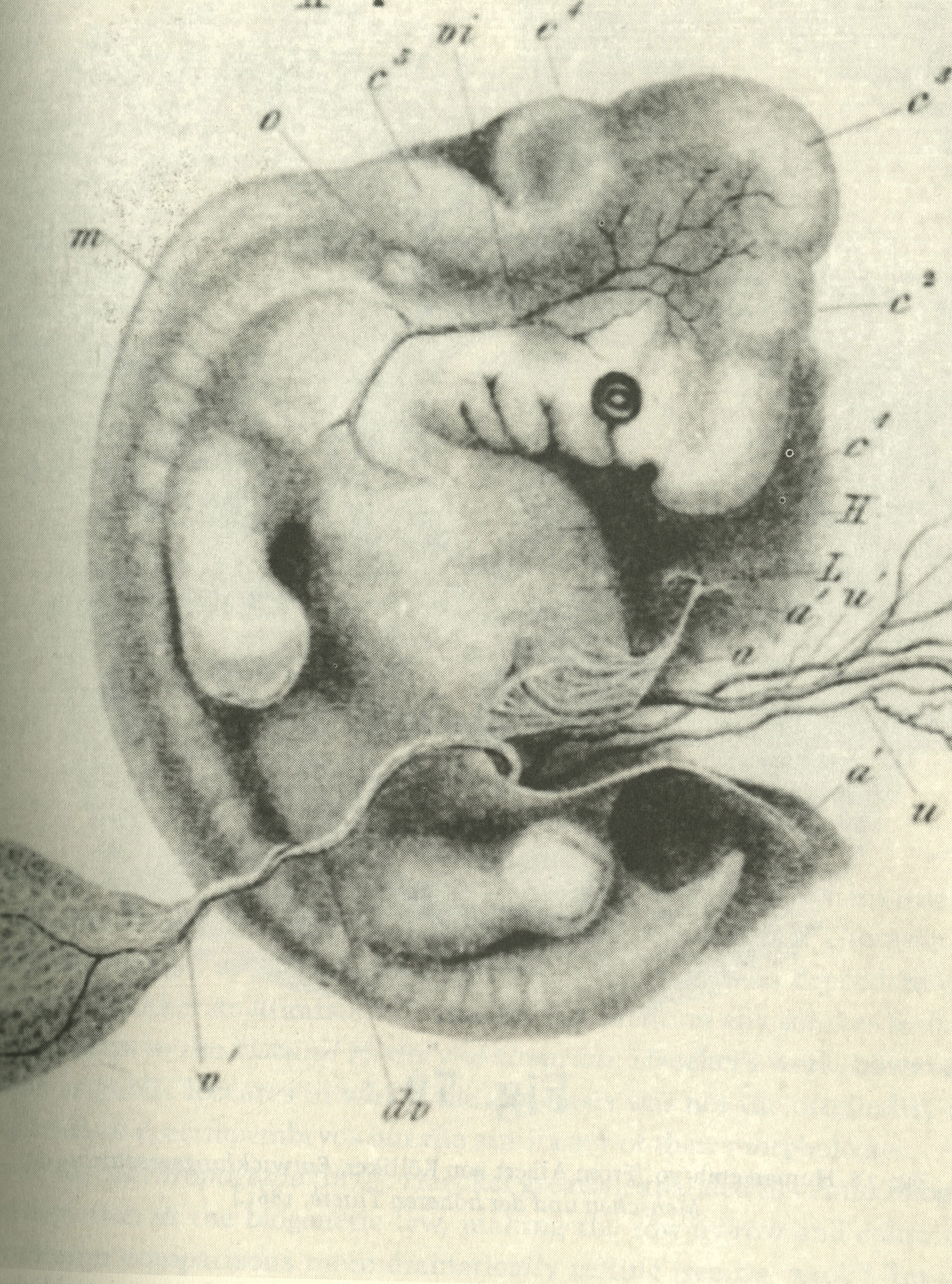 pictues of a human embryo.